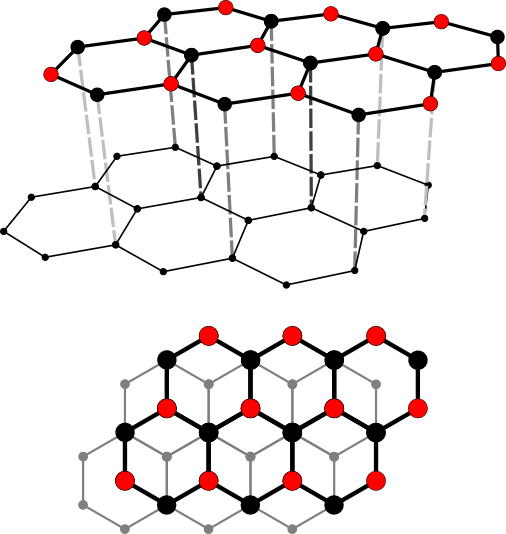 Graphite layers